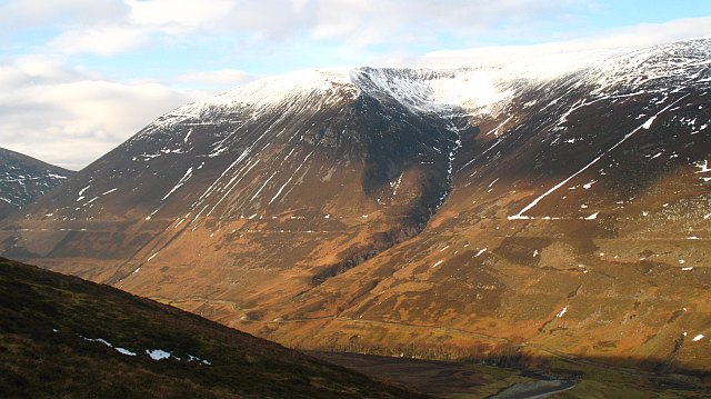 Parallel roads on Beinn Iaruinn The old beaches show up well on the far side of Glen Roy below Coire nan Eun on Beinn Iaruinn. The real life contour lines along the sides of Glen Roy are old beaches from ice dammed lochs. Eventually a col would be suddenly breached, the water would flow out leaving a new water level, hence the three well defined lines.